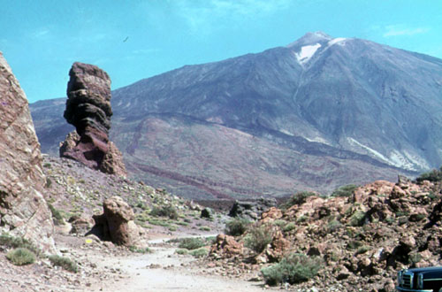 The Teide